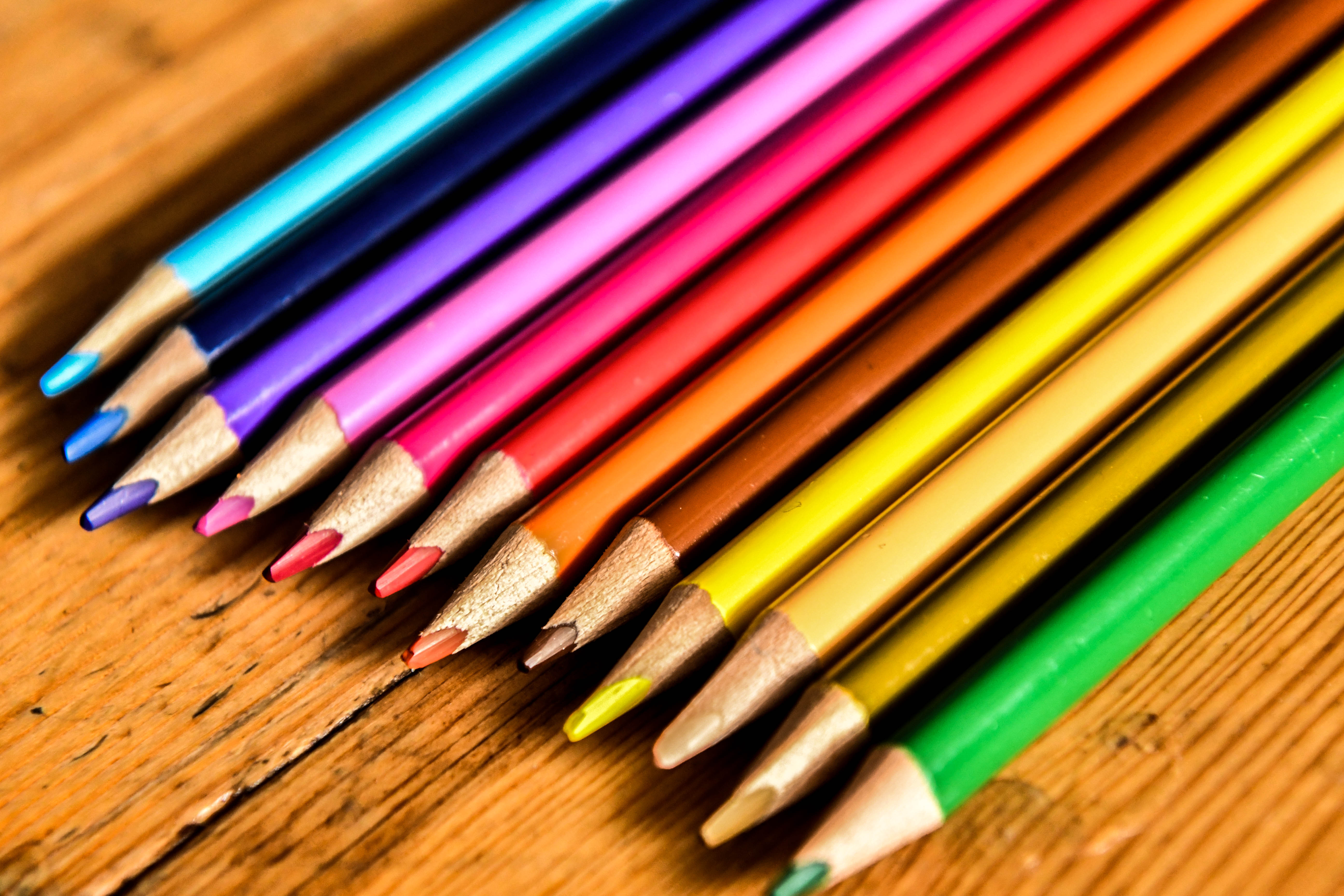 Muliple colored pencils